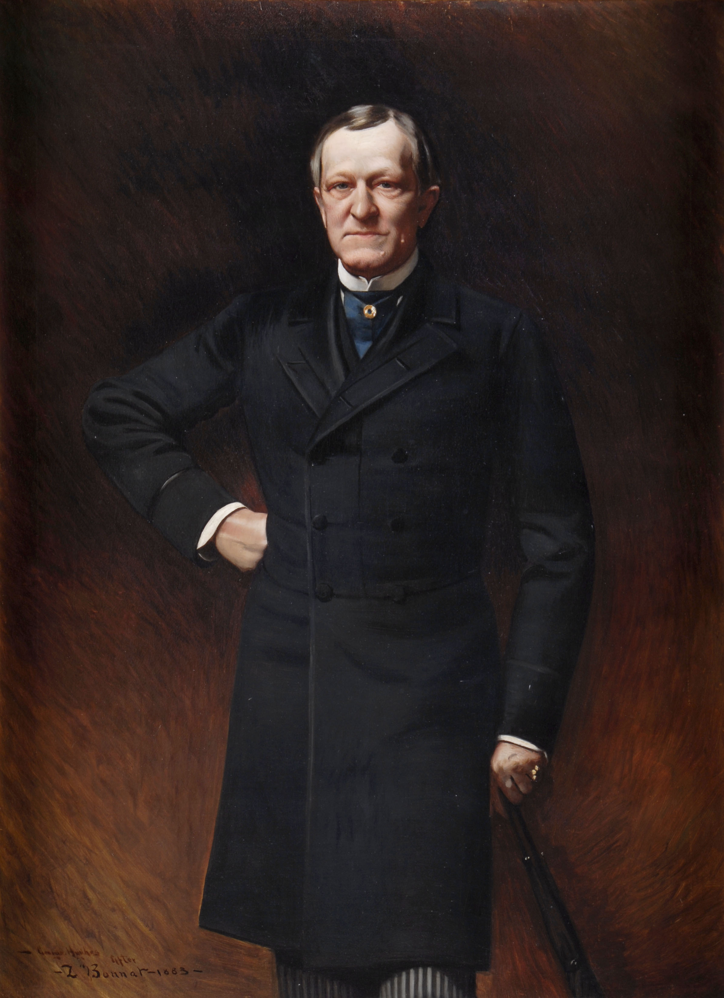 A portrait of U.S. Vice President and New York Governor Levi P. Morton.